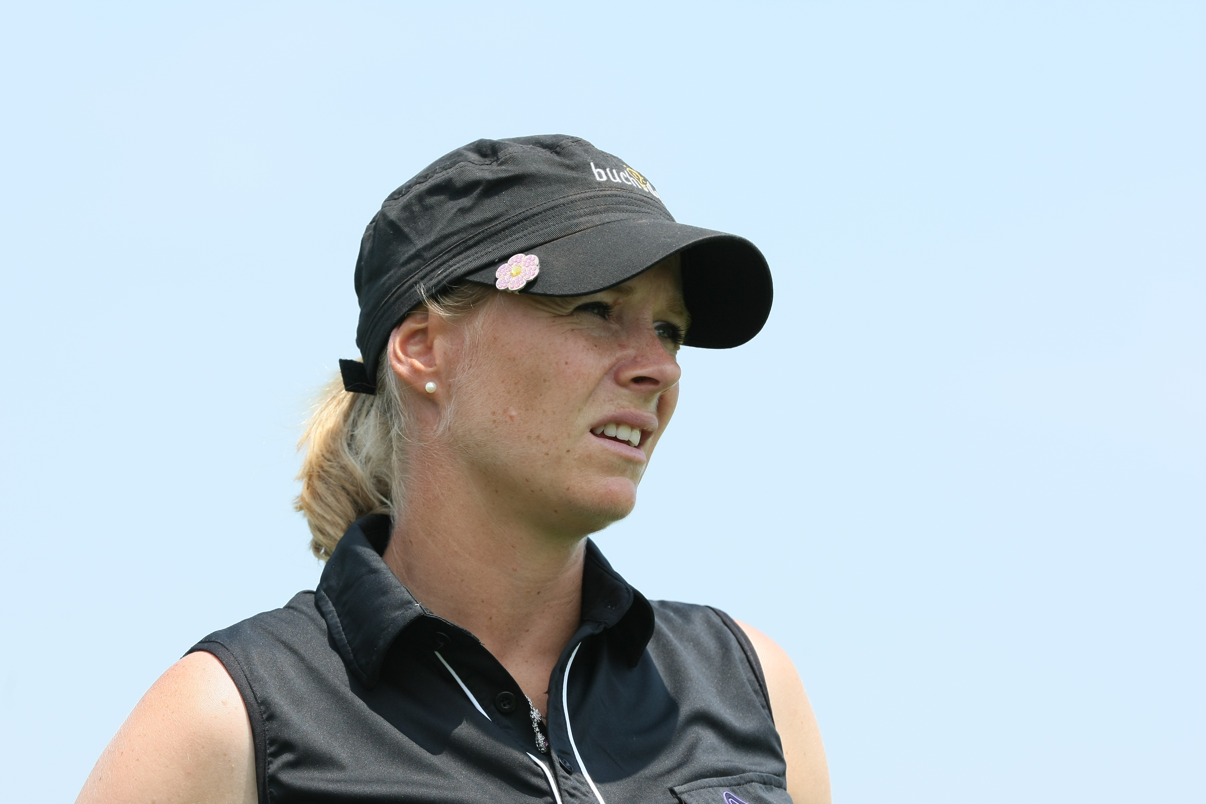 HAVRE DE GRACE, MD - JUNE 09: Anja Monke (GER) during Pro-Am before 2009 LPGA Championship held at Bulle Rock Golf Course, on June 9, 2009 in Havre de Grace, Maryland. (Photo by Keith Allison)